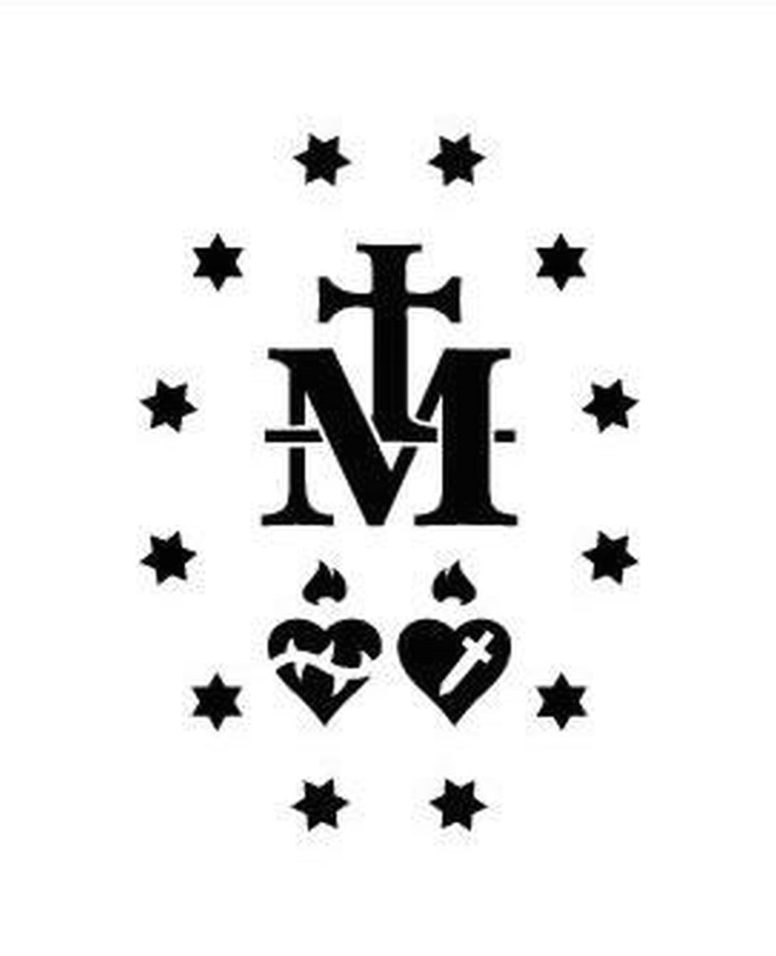 Miraculous Medal reverse symbols